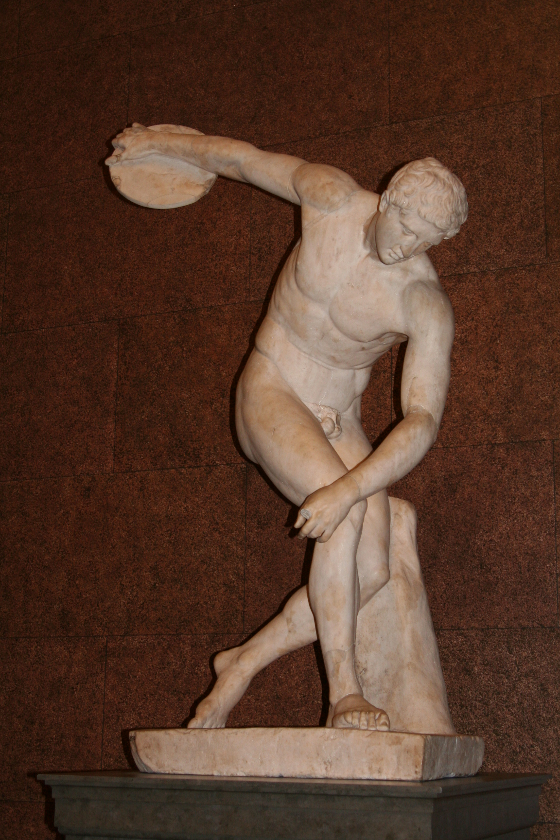 Photos taken in the Roman Gallery - British Museum